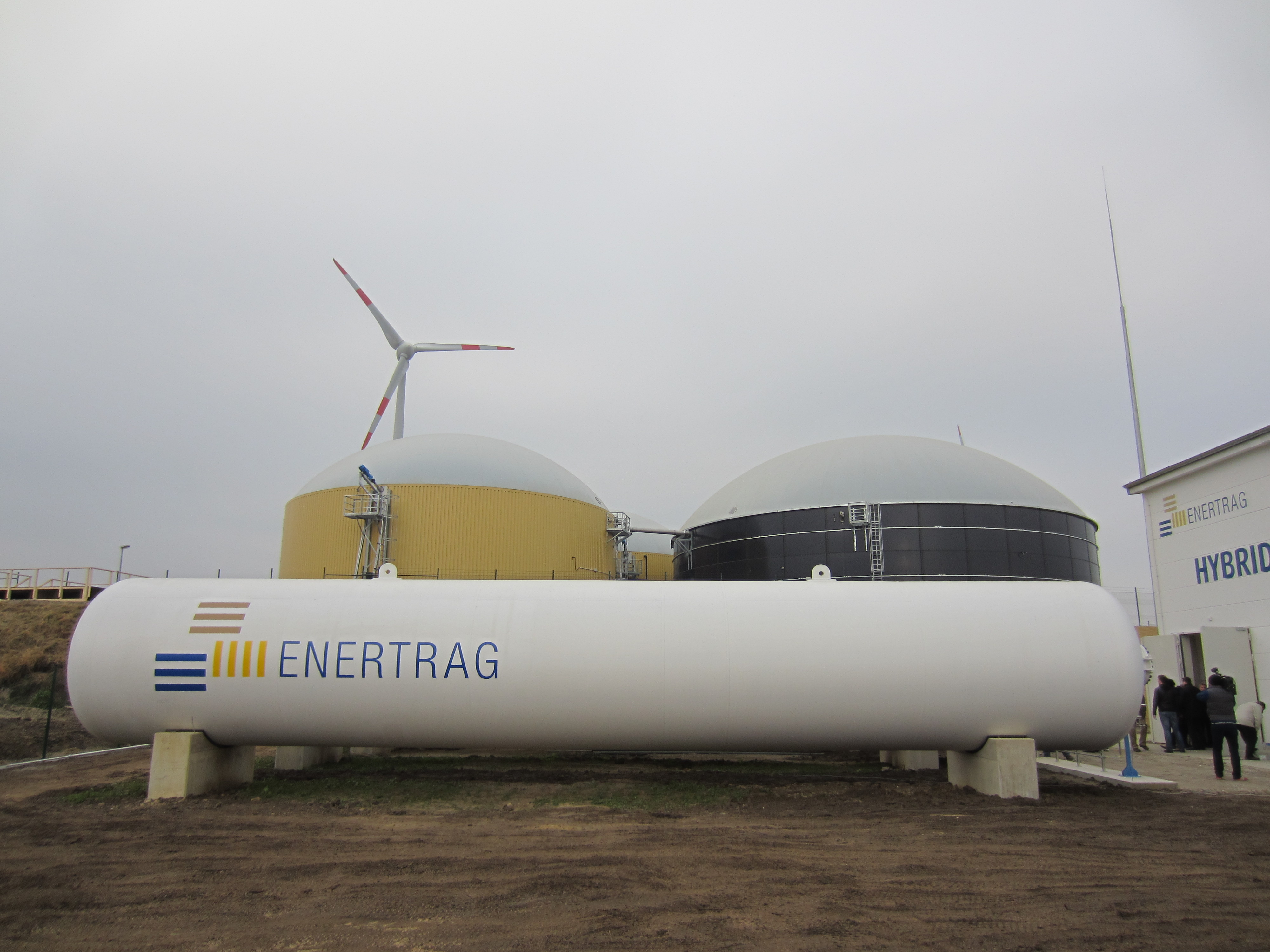 Gas storage, Biogas plant and wind power at hybrid power plant in Prenzlau.